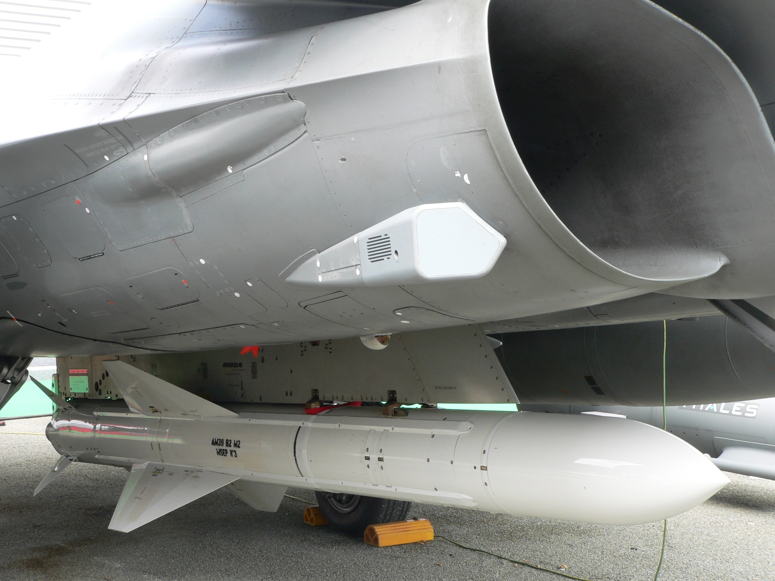 Exocet AM-39 anti-ship missile (from MBDA) under a Dassault Rafale